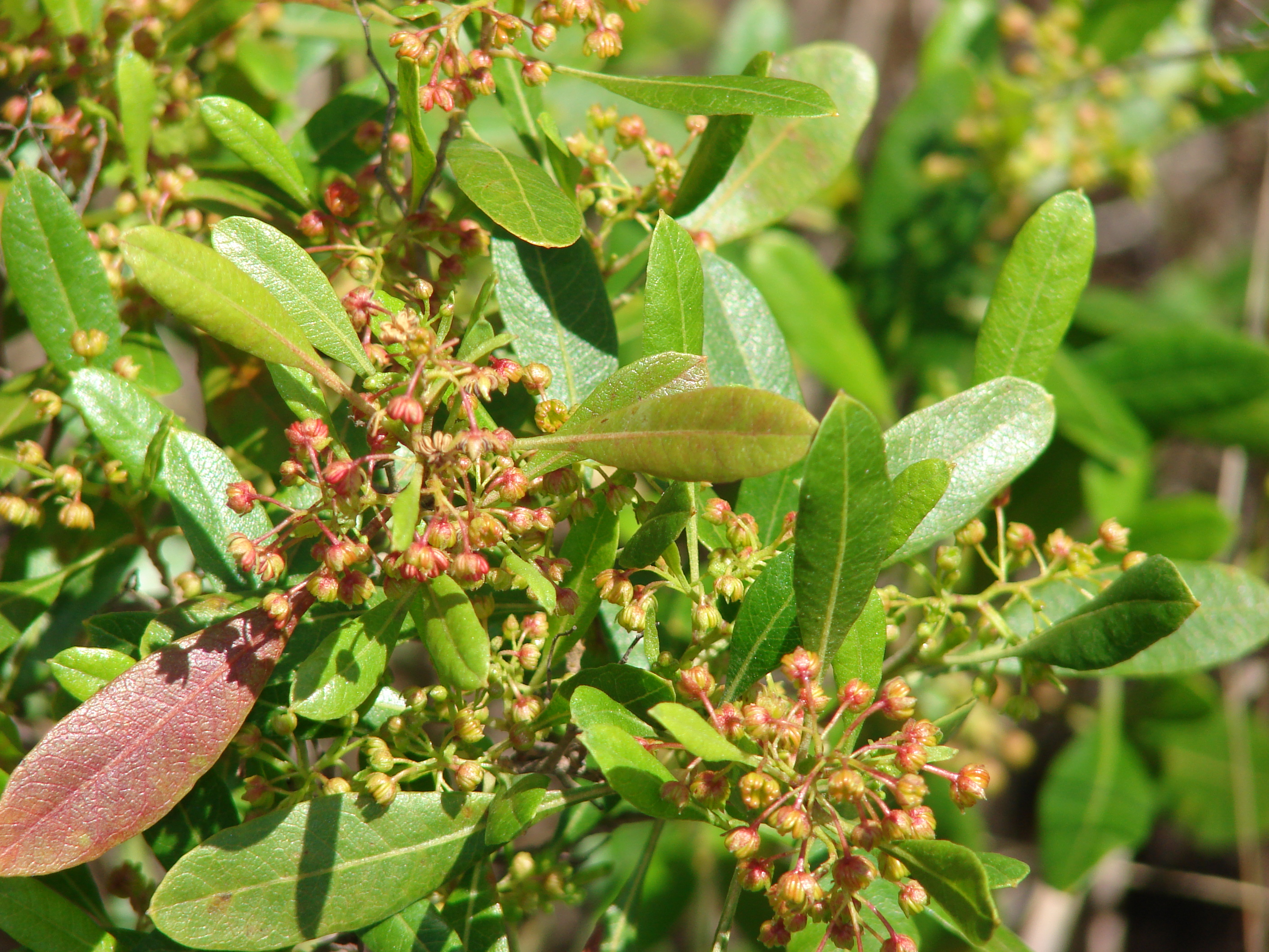 Dodonaea viscosa (male flowers). Location: Maui, Kanaio